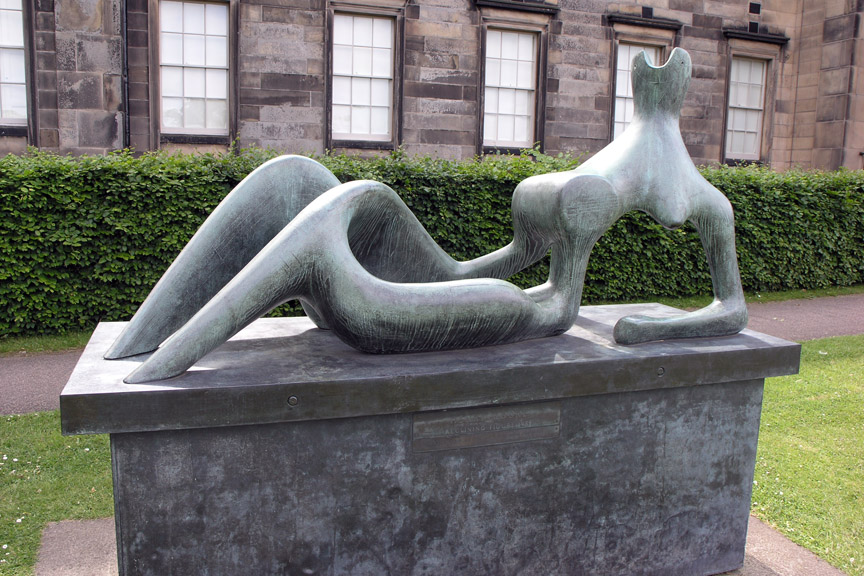 ( Scottish National Gallery of Modern Art, Henry Moore sculpture in the grounds. Taken in 2004 by myself with an Olympus C8080W.)